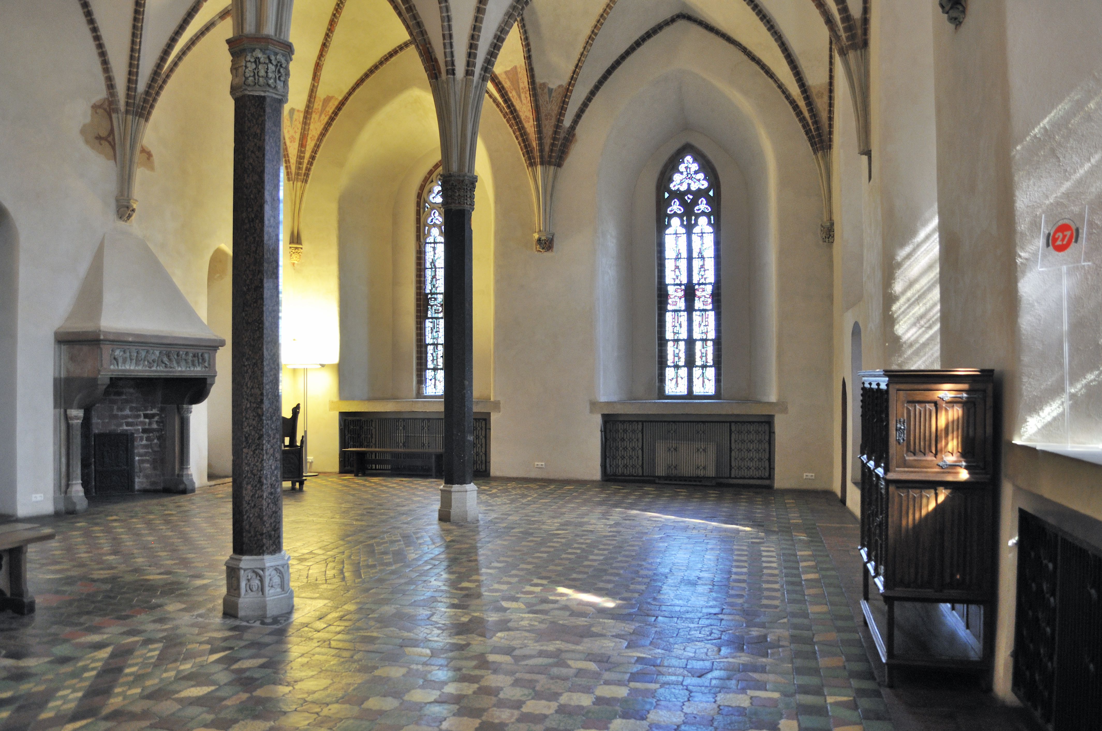 Picture taken in Malborg after Wikimania 2010 conference.